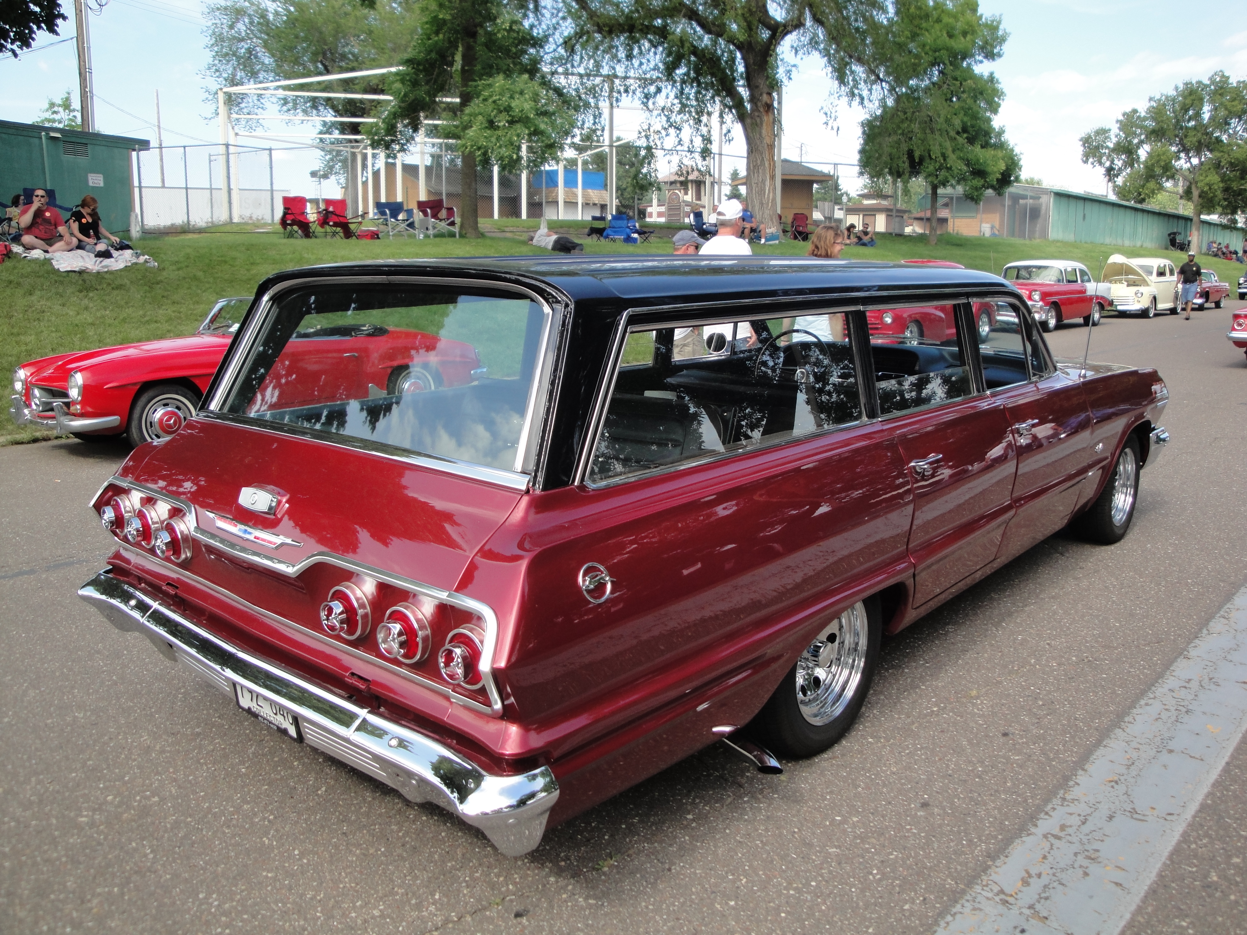 Minnesota Street Rod Association 39th Annual "Back to the Fifties" June 2012 Minnesota State Fairgrounds St. Paul MN